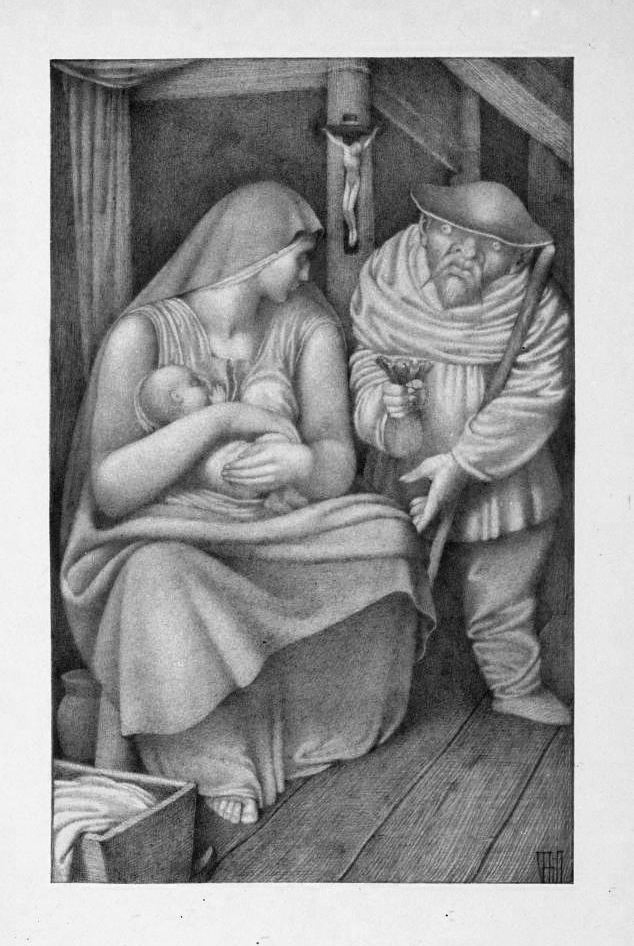 Vernon Hill's illustration of folk ballad "The Great Sealchie of Sule Skerrie" from 1912 book Ballads Weird and Wonderful by Richard Chope.